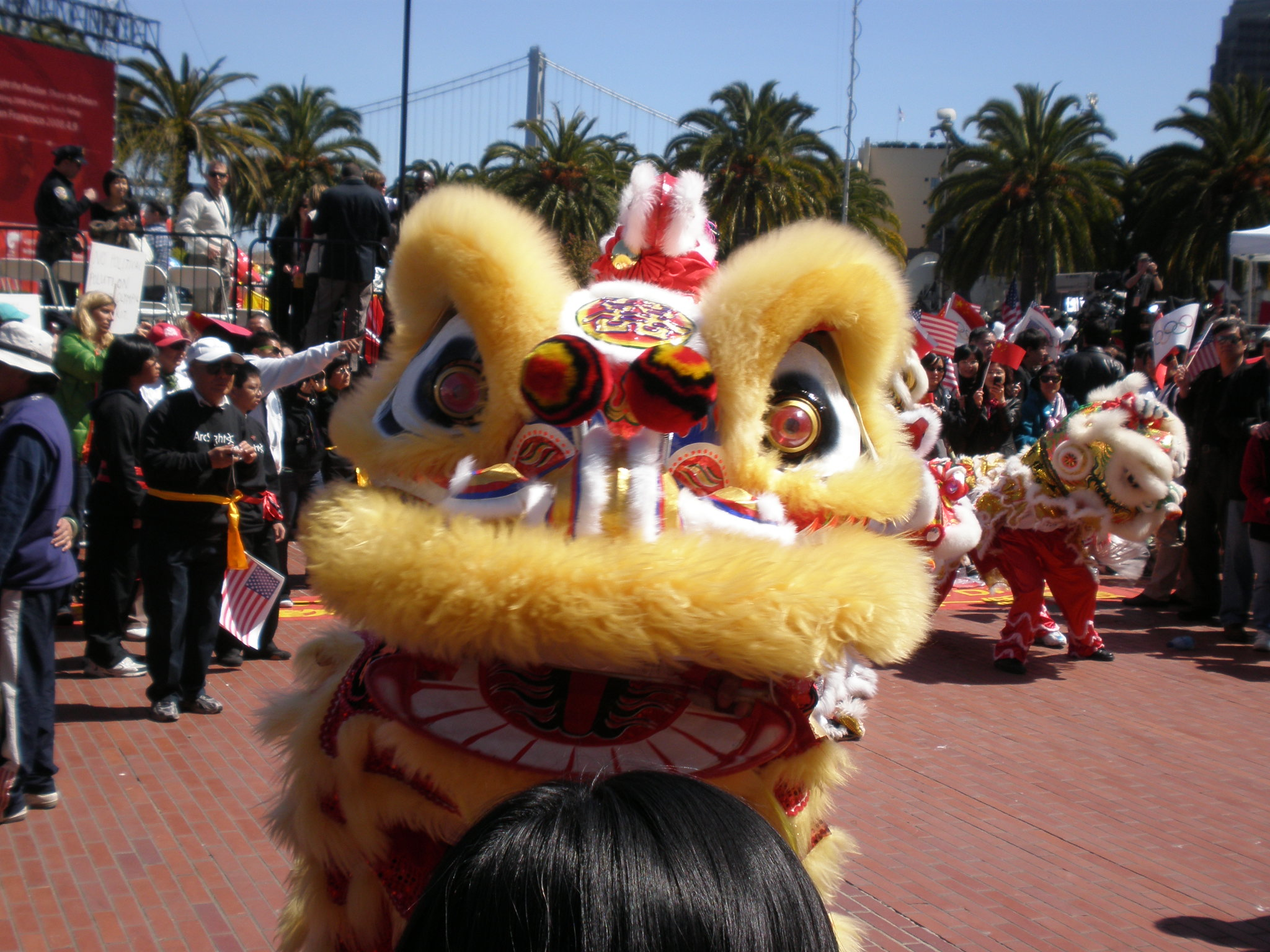 Members of the Buk Sing Choy Lay Fut Kung Fu Association from Fremont, California perform a lion dance to welcome the torch's arrival in Justin Herman Plaza. For an explanation and additional photos of my experience during the relay please see User:BrokenSphere/Gallery/San Francisco Bay Area/San Francisco/2008 Olympic Torch Relay.